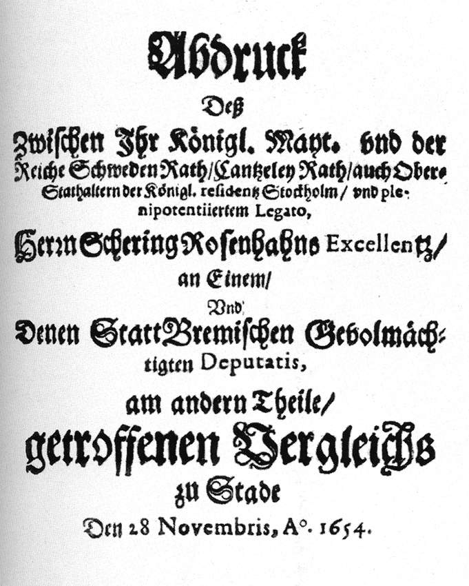 Cover page of the Ersten Stader Vergleich (“First compromise of Stade”), agreed on between the city of Bremen and the kingdom of Sweden in Stade, Germany, 28 november 1654.